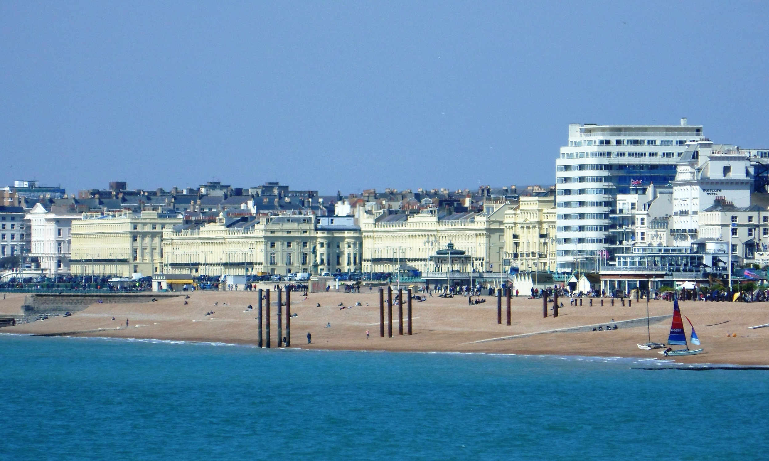 The buildings of the western part of Brighton seafront (and just into Hove), seen from the Palace Pier. Visible from left to right are, among others, Adelaide Crescent, Brunswick Terrace, Embassy Court and the Norfolk Hotel.